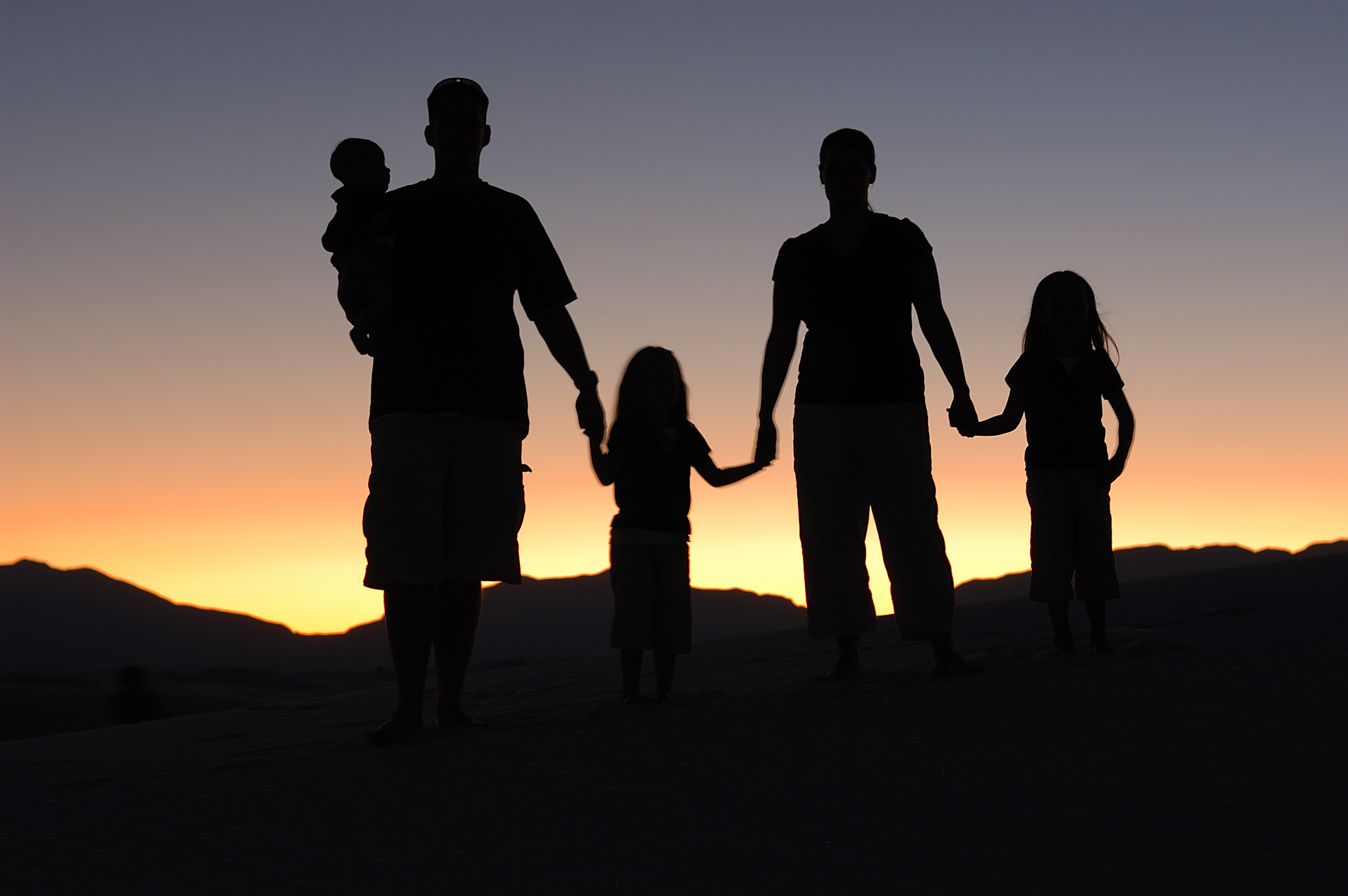 Picture taken at White Sands. More information about the National Monument can be found here